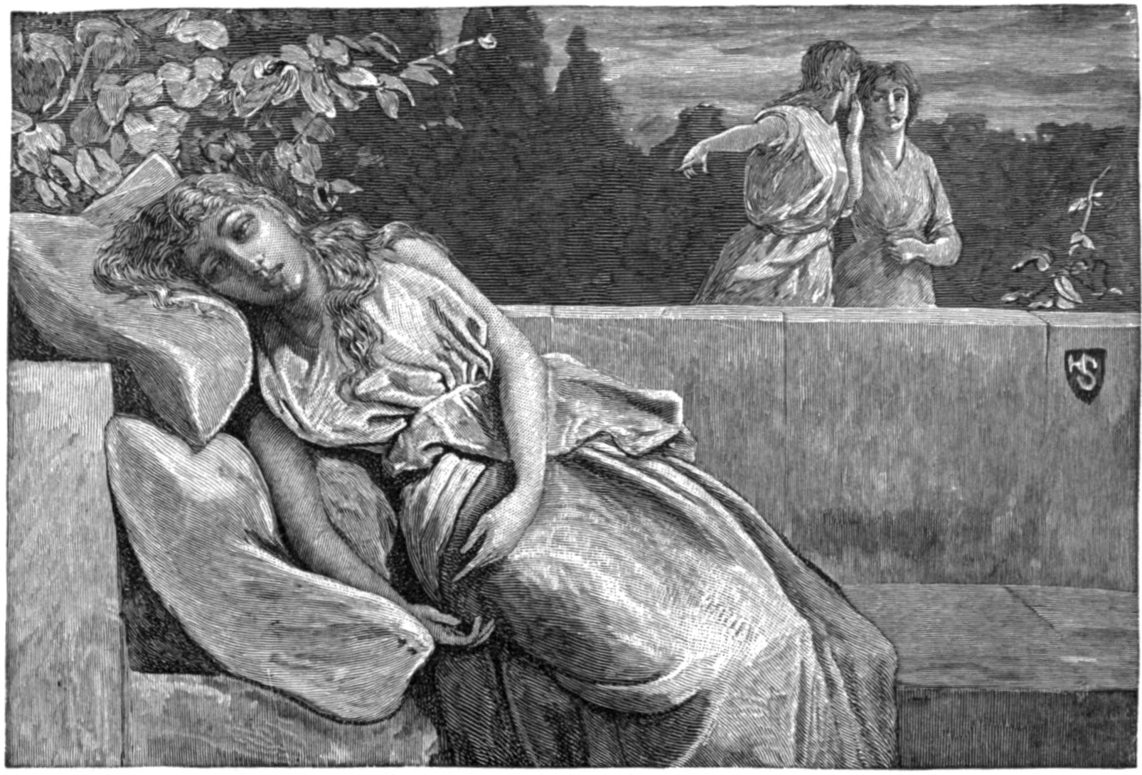 pg 29 in an 1885 publication of Edgar Allan Poe's Lenore.